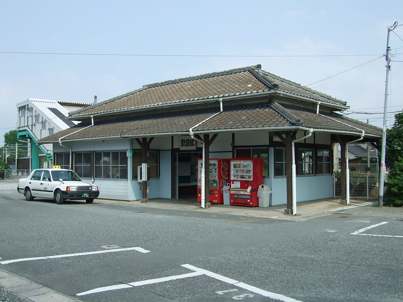 Namazuta Station on the Chikuho Main Line, Kyushu Railway Company